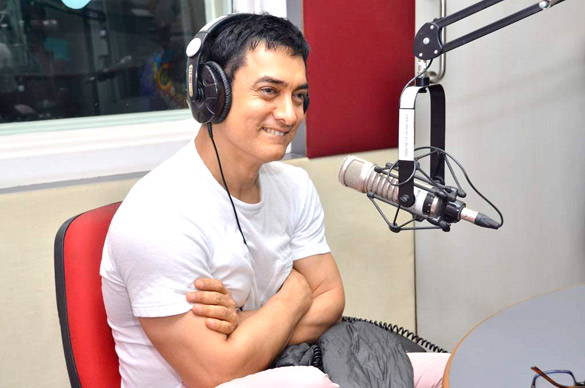 Aamir Khan at 92.7 BIG FM to promote Satyamev Jayate